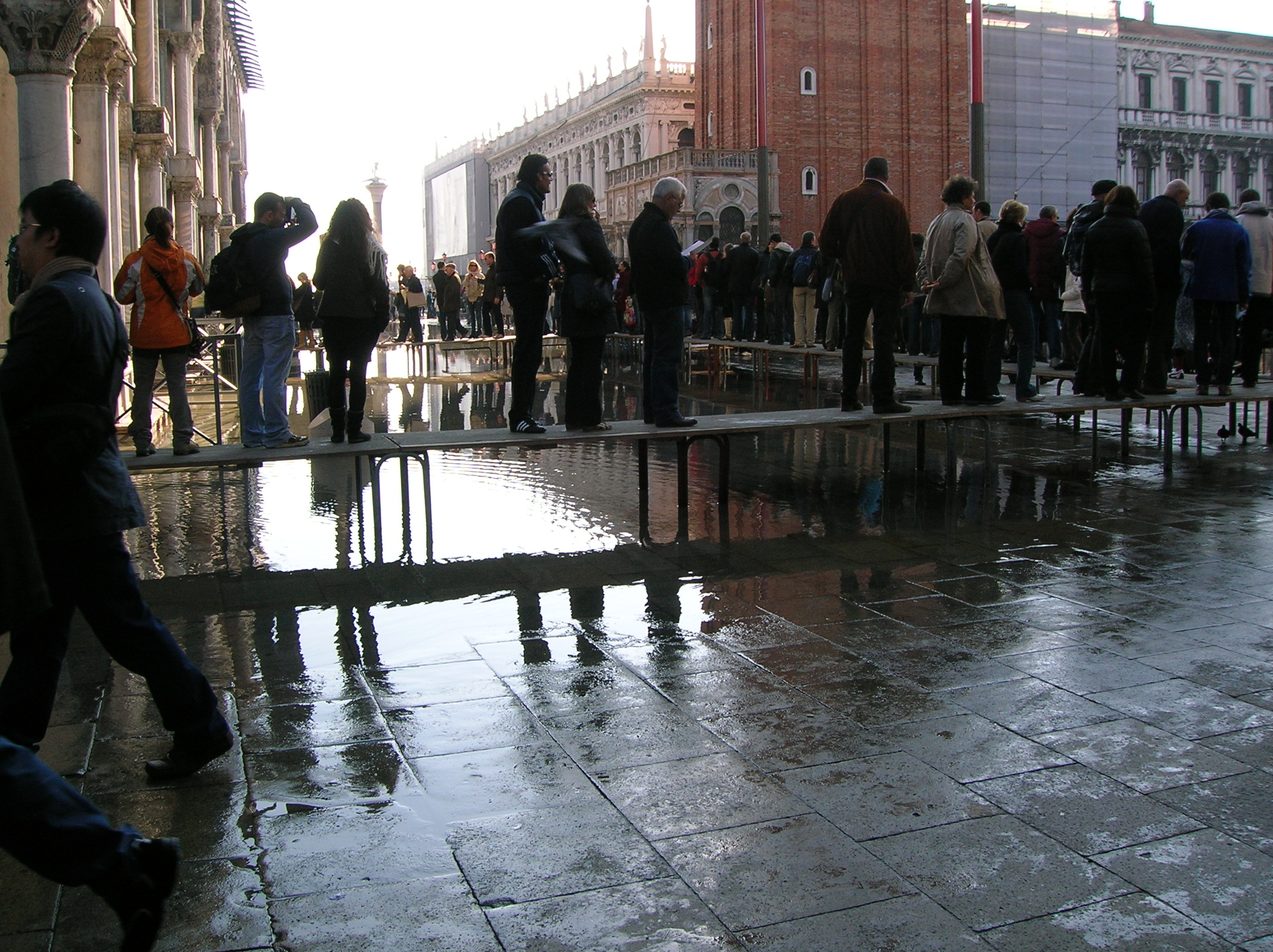 Acqua alta at Venice: tourists on footbridges waiting to visit San Marco Church. more pics here